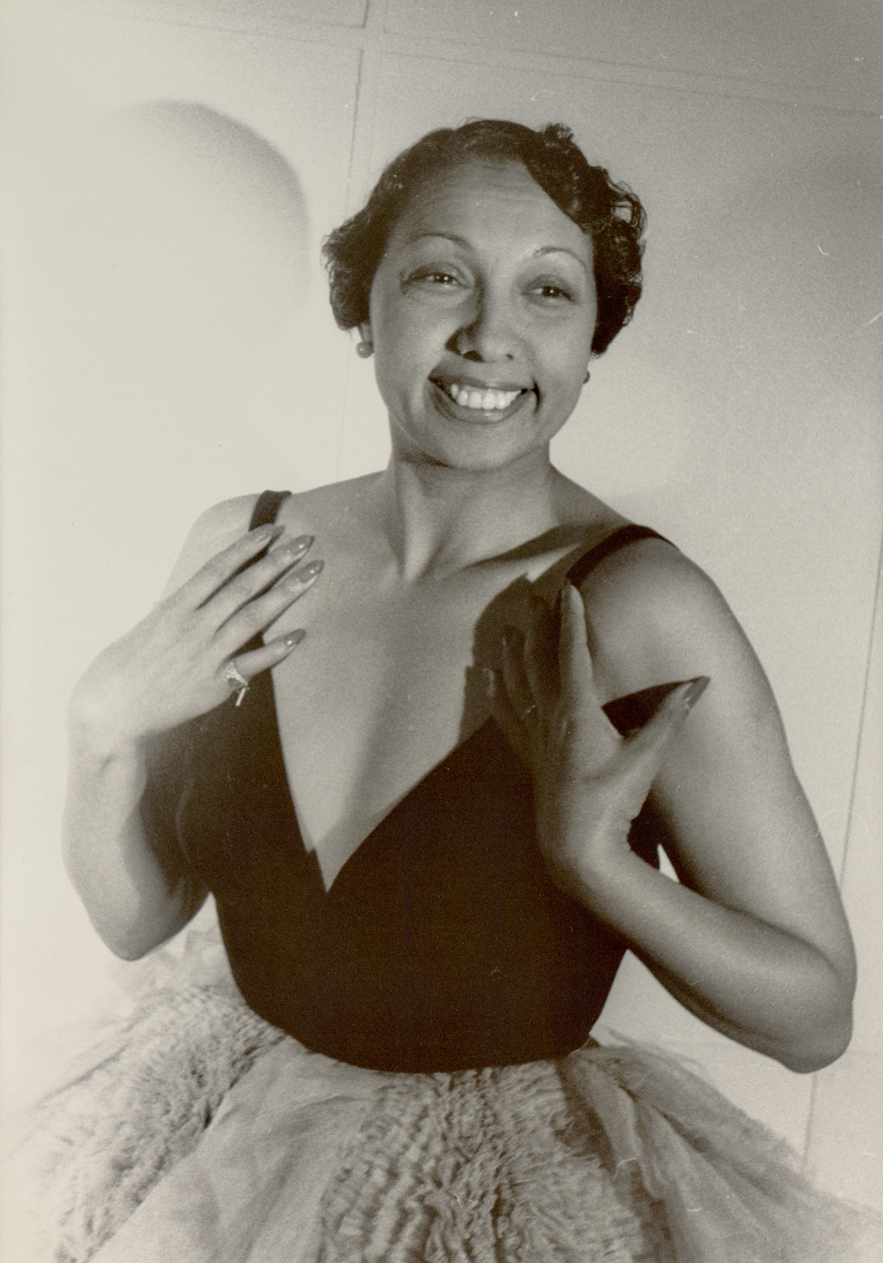 Portrait of Josephine Baker, Paris